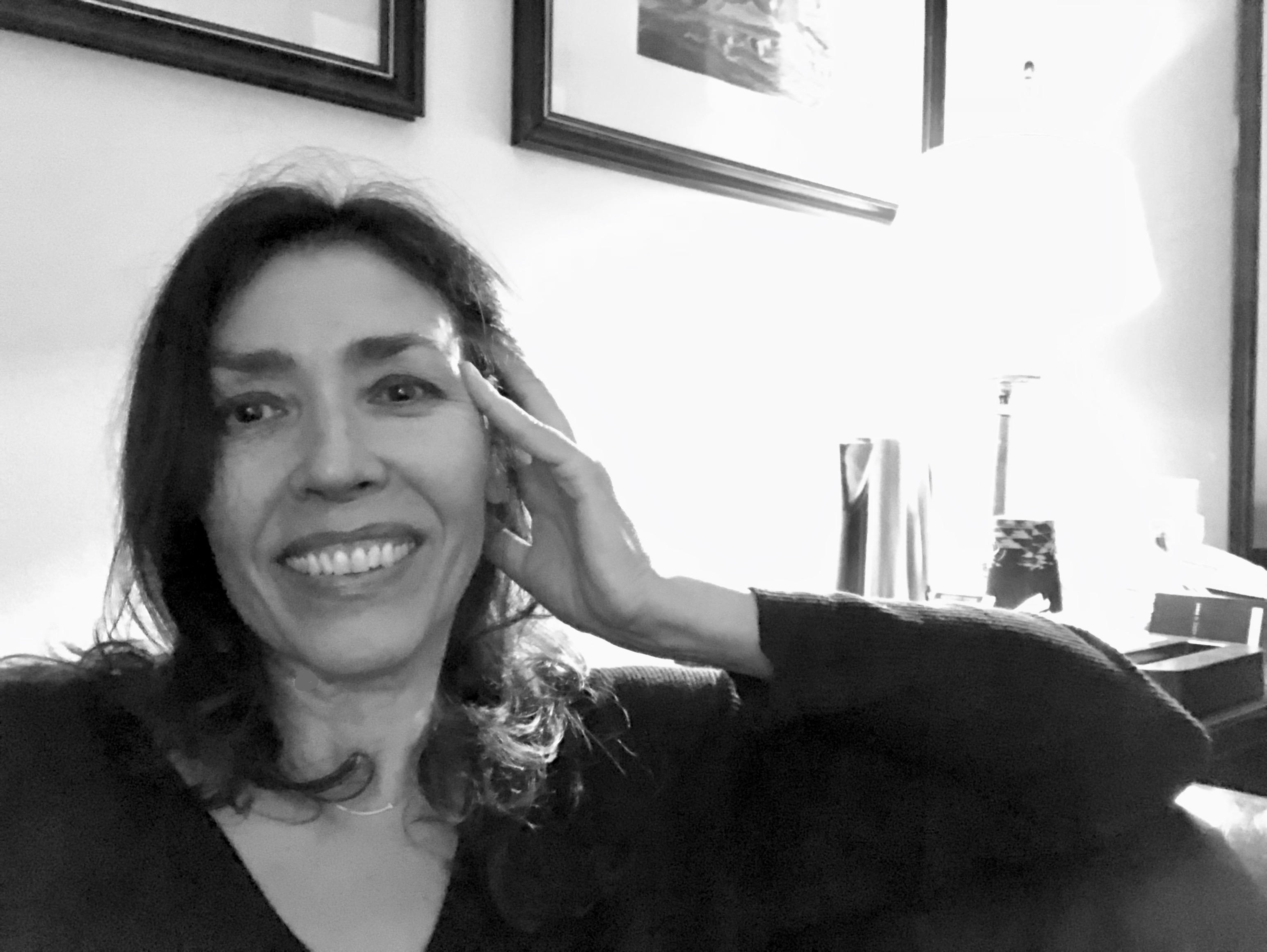 Porträtfotografie